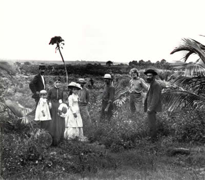 This 1885 photograph shows pioneers standing on what is believed to be the west side of Lake Worth--the future West Palm Beach.